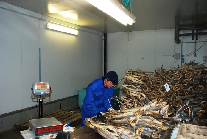 Worker with stockfish.